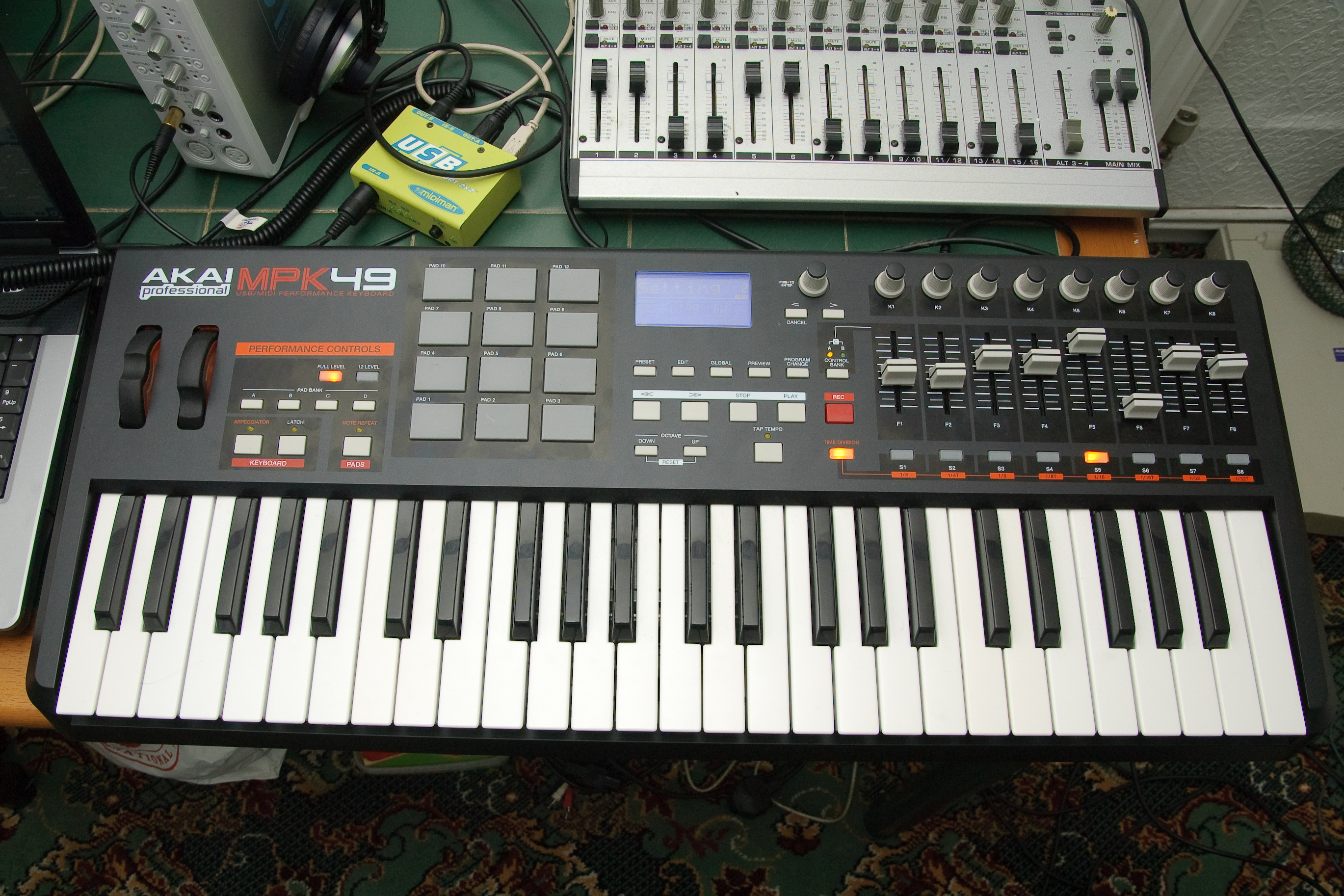 AKAI Professional MPK49 Performance Controller with 12 MPC Drum Pads Focusrite Saffire 4In/10Out Firewire Audio Interface w/DSP-based effects M-AUDIO USB MIDISPORT 2x2 2In/2Out USB MIDI Interface